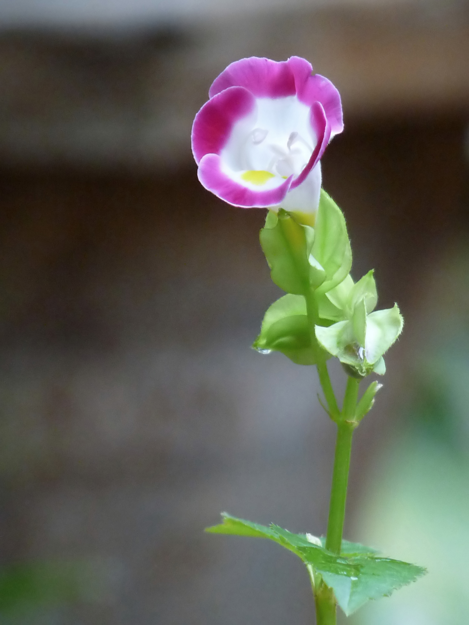 Torenia fournieri, Wishbone flower, Torenia, is a perennial plant in the Linderniaceae, with blue or pink (Torenia fournieri 'Catalina Pink') flowers that have yellow markings. It is typically grown as a landscape annual, reaching 12-15 in. tall. It has simple opposite or sub-opposite leaves with serrated edges. The pink or pale violet flowers have deep purple blotches on the lower petals with yellow inside. The cool colors are a welcome relief during the heat of summer. Flowers bloom throughout the summer and autumn.